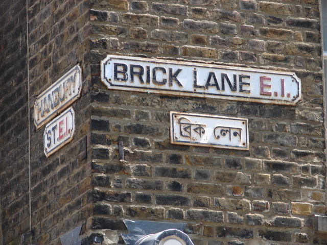 Bilingual signs at London's Brick Lane, London.